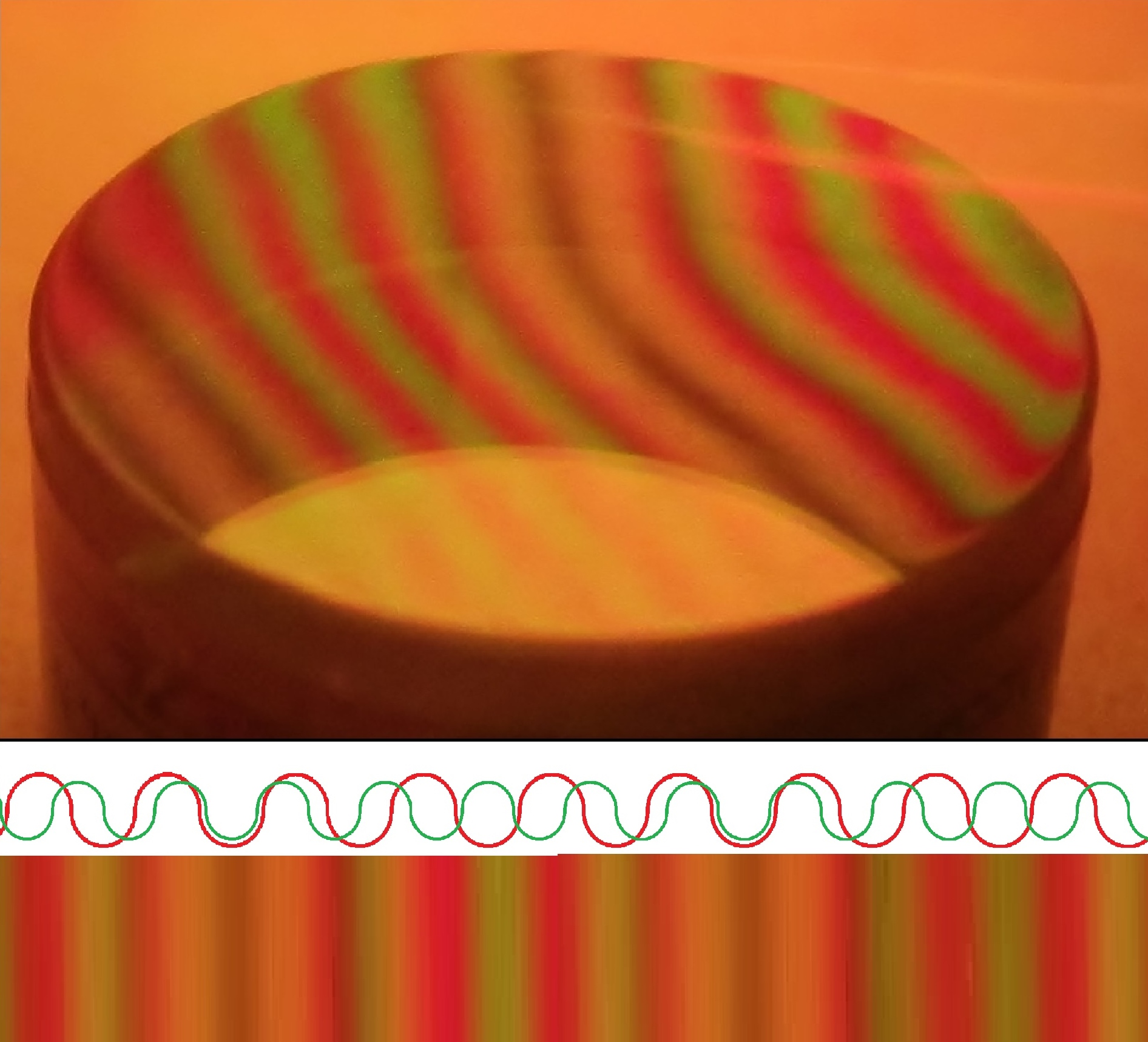 An optical flat test performed with both green (532 nm) and red (650 nm) light. The red and green are harmonically opposites, so the fringes fall between each other in certain locations, yet they overlap in others, forming yellow fringes. The wavelengths are nearly harmonically opposite of each other, being roughly λ/5 shorter. A true harmonic-opposite is λ/4 shorter (532 is opposite of 665, and 650 is opposite of 520). The lower inset shows how the waves would overlap and interfere with each other if they were true opposites, directly corresponding to the fringes at the bottom.